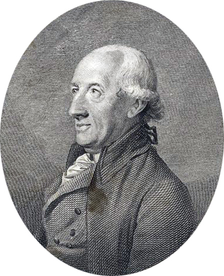 John Berkenhout (1726-1791) British naturalist